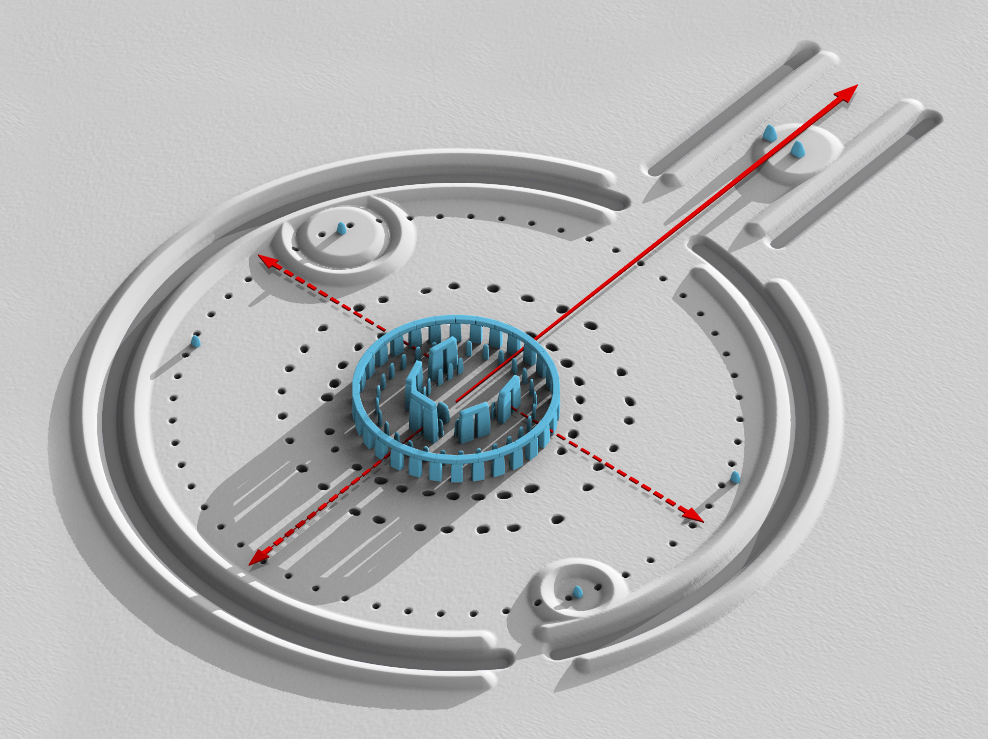 3D rendering of Stonehenge. Blue = stone. Red = cardinal directions, with North as solid arrow. White = earthworks